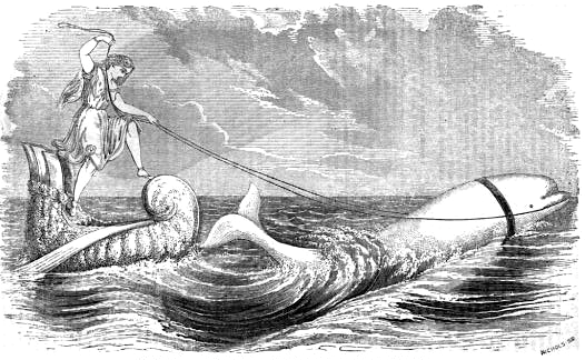 Illustration from: "Boston Aquarial and Zoological Gardens." Ballou's Dollar Monthly Magazine, v.16, no.1, July 1862.